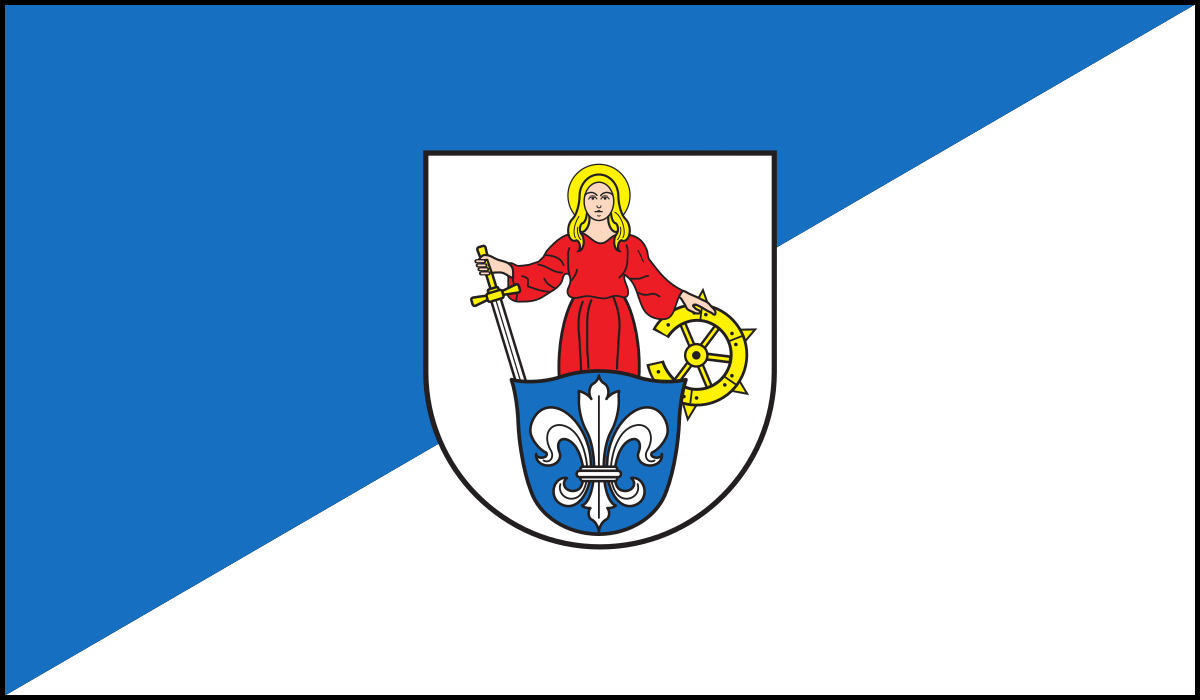 Flag of Wolmirstedt